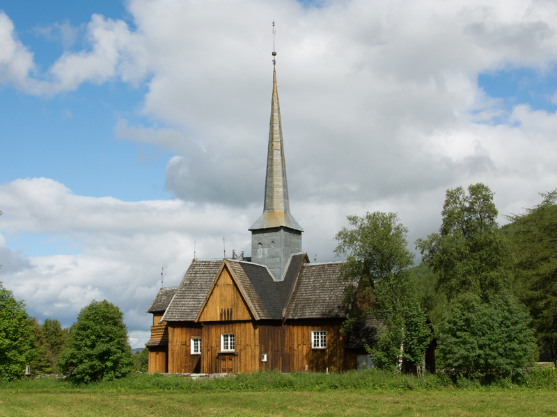 Kvikne church Tynset, exterior